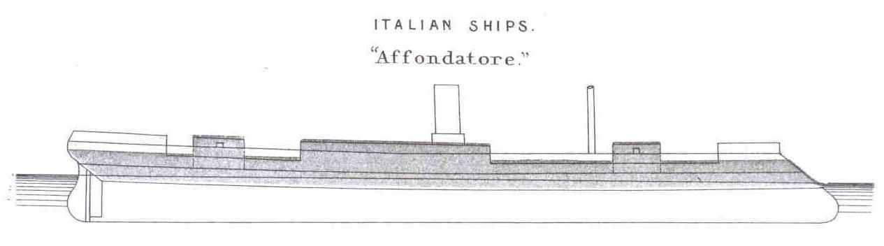 Italian ironclad Affondatore, launched 1865. Armour marked in grey.